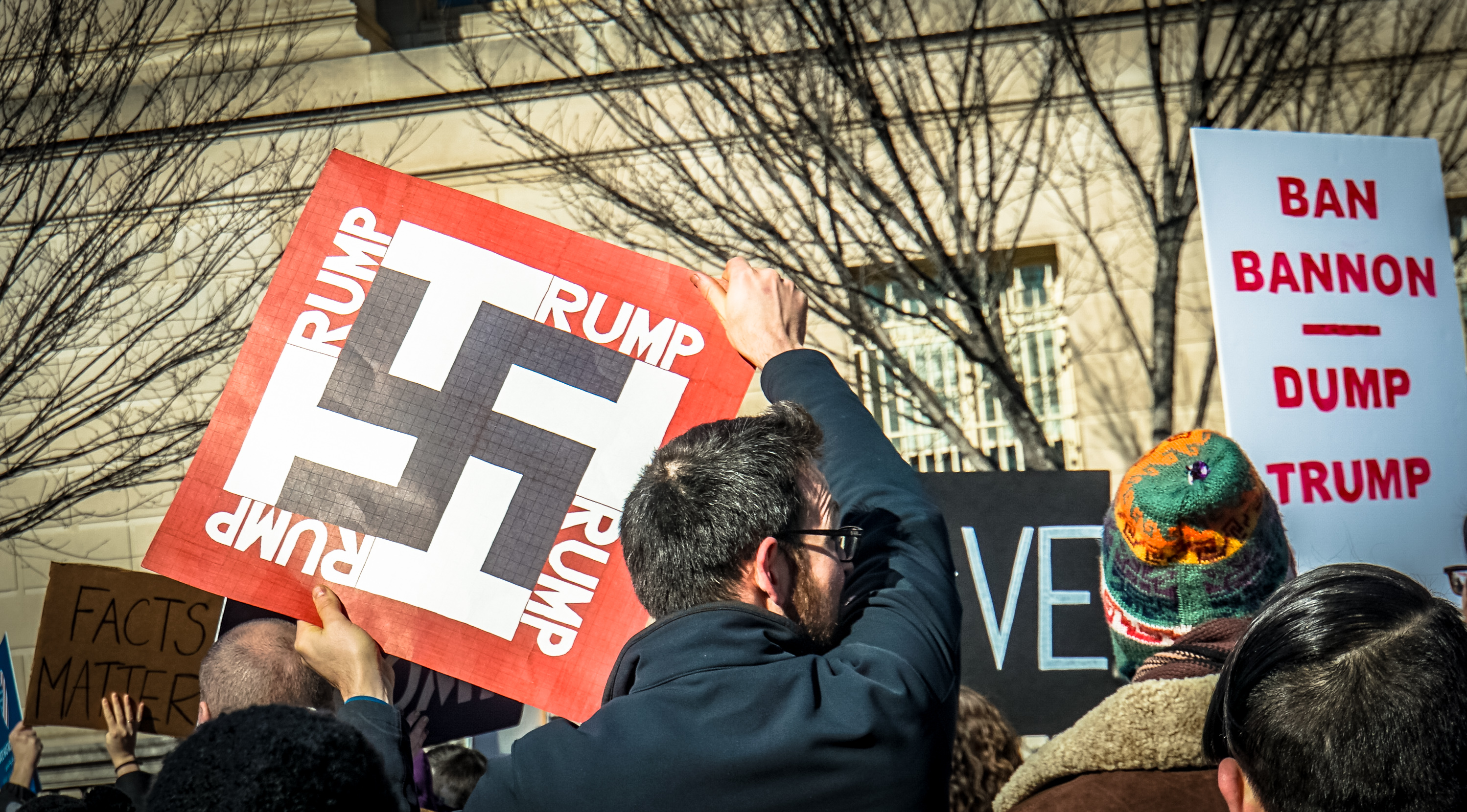 2017.02.04 No Muslim Ban 2, Washington, DC USA 00437